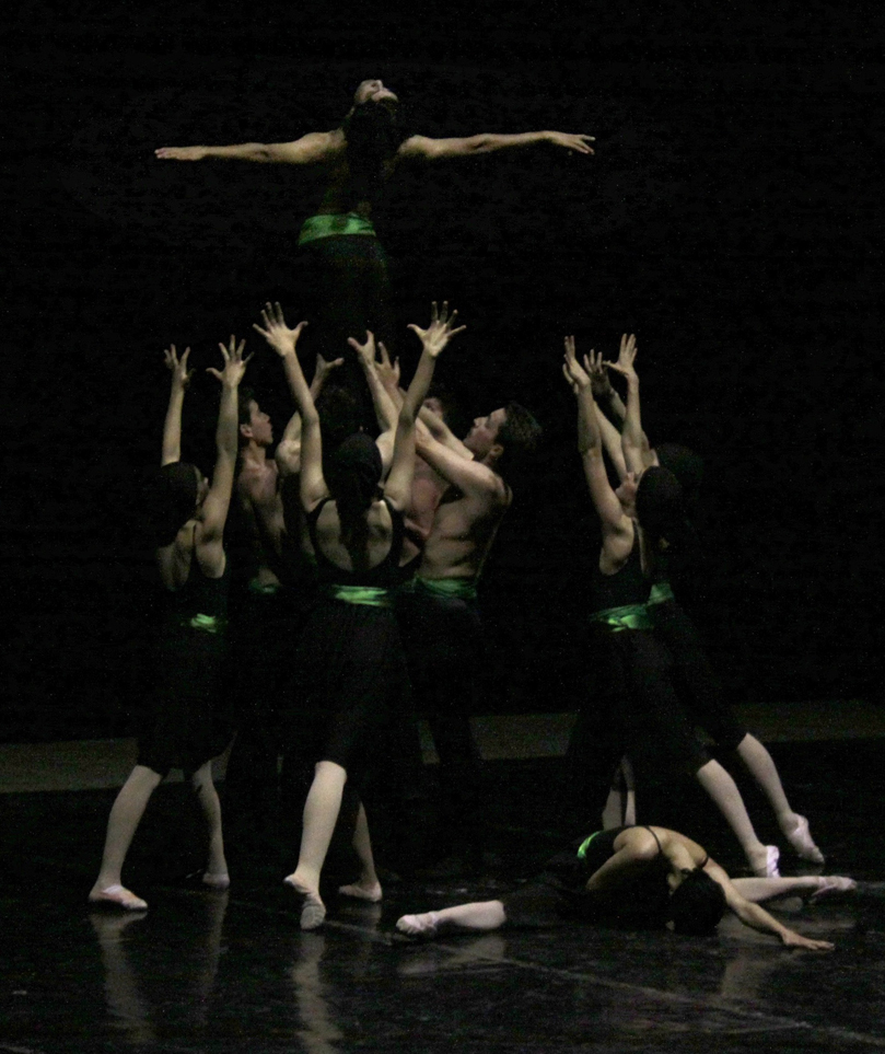 Symphony of Elegy, choreographed by Nima Kiann